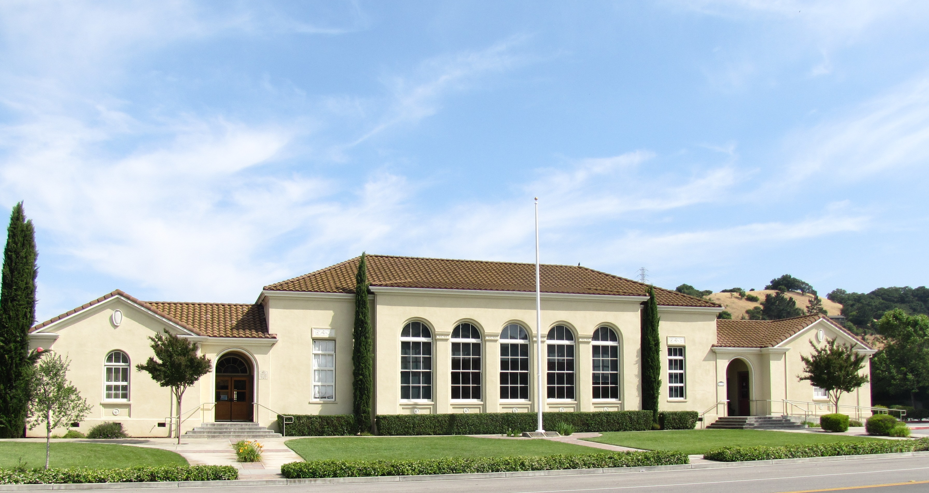 Currently Morgan Hill's Stratford School; formerly Carden Academy.